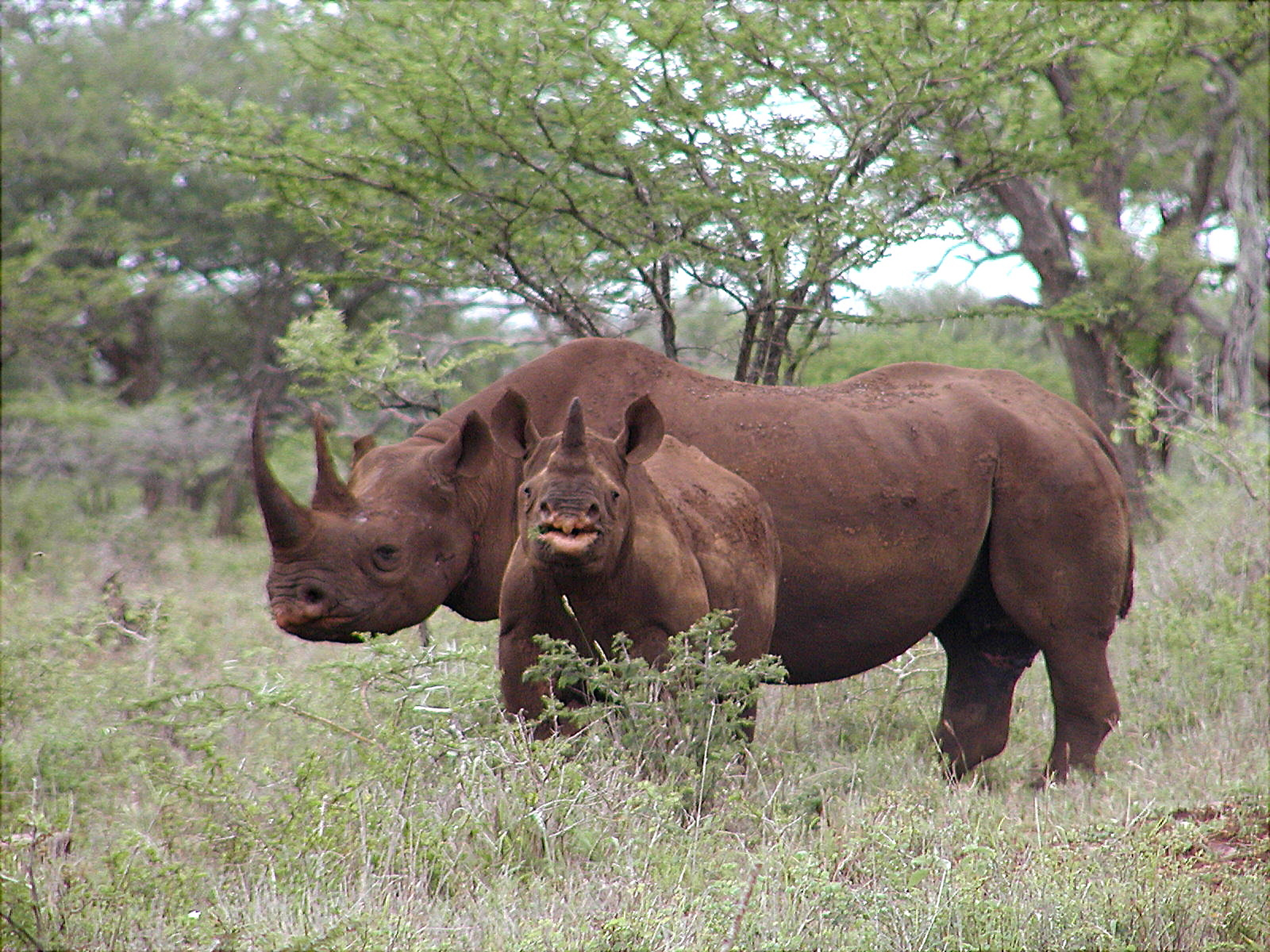 Black rhino with calf (male), in Mkhuze Africa.